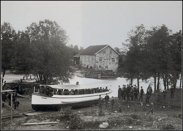 The Swan, a locomotive steamer, in 1892, on its way up from the river Viskan to make a turn around a waterfall and then continue its journey on the river towards the lake Öresjö.